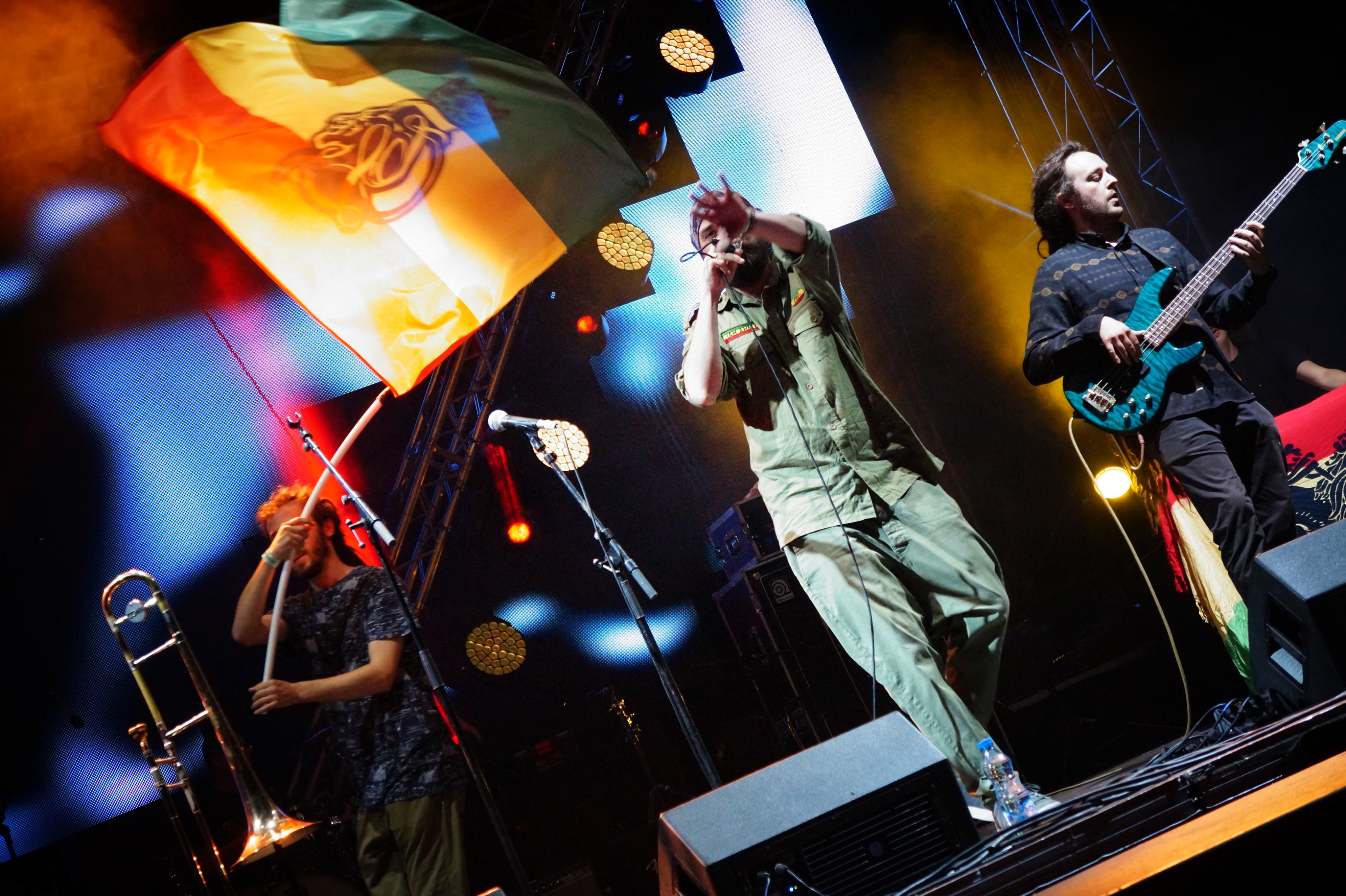 No description is currently available.